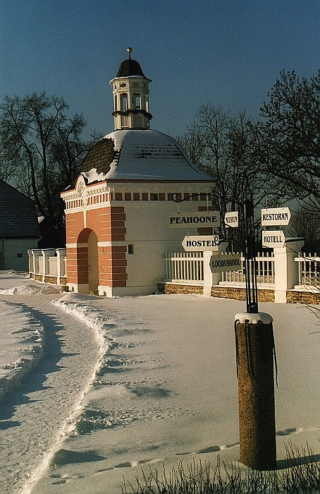 The manor house Sagadi has the beatiful tower of the gate on the northest Estonia.